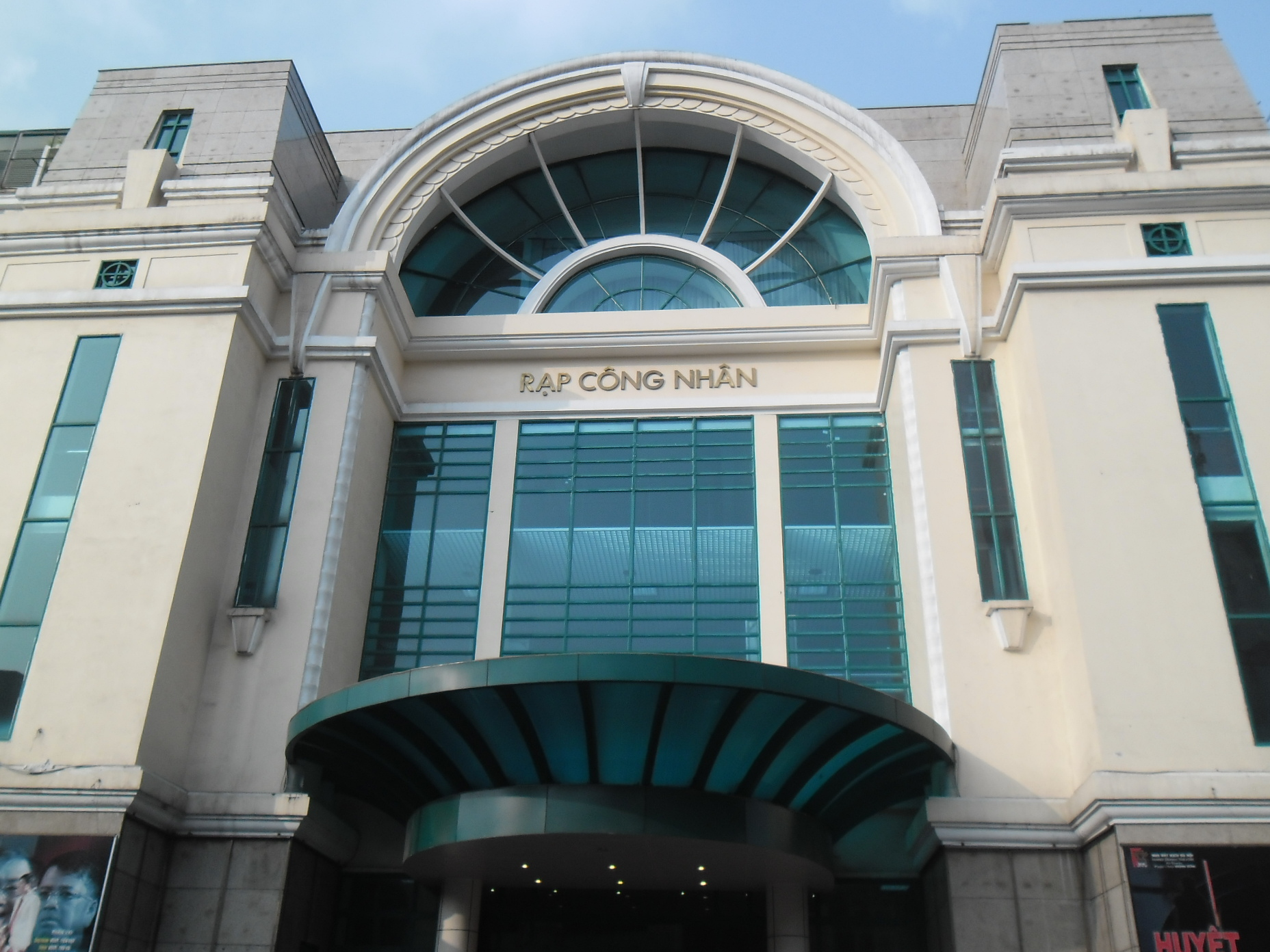 The Workers' Theater (Rạp Công Nhân) at 42 Trang Tien Street. Former names are Eden Cinema and Cinema Palace.